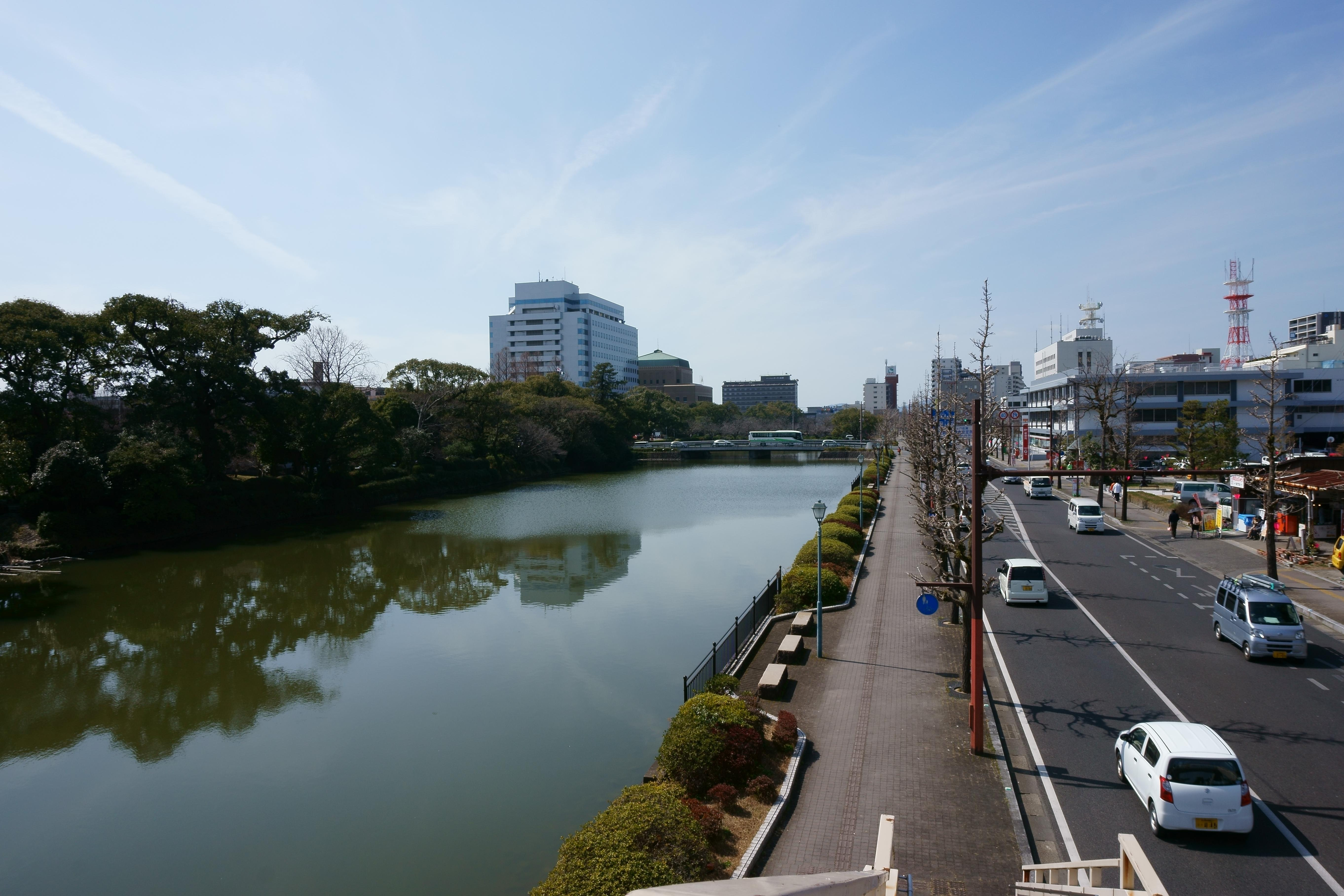 Saga Castle's north moat and side street, in Saga city.